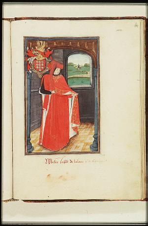 Statuts, Ordonnances et Armorial de l'Ordre de la Toison d'Or (Statutes, Ordonnances and armorial of the Order of the Golden Fleece) Place of origin, date: Southern Netherlands; 1473. Added sections: Southern Netherlands; 1478 or shortly after and 1491 or shortly after Material: Vellum, ff. 86, 249x187 (167x106) mm, 23 lines, littera cursiva (lettre bourguignonne). French. Binding: 18th-century brown leather Decoration: 1 full-page miniature (170x115 mm) with border decoration; 92 miniatures (185/155x120/100 mm); 1 historiated initial (80x90 mm) with border decoration; decorated initials with border decoration (ff., Added section: miniatures ; 4 drawings for miniatures (not finished) Provenance: Presented in 1473 by Gilles Gobet, King of Arms of the Order of the Golden Fleece, to Charles the Bold, Duke of Burgundy and the other Knights during the Chapter of the Order held at Valenciennes; Treasure of the Golden Fleece, Brussls; taken away by the Treasurer C.-F. Humyn (d. 1735) or his daughter C.Ch. de Corte; by legacy to her daughter M.-L. de Corte, wife of Ph.-E. de Poederlé; purchased in 1781 at the Poederlé sale by G.-J- Gérard of Brussels; acquired in 1832 as part of the Gérard collection (no. A 27)